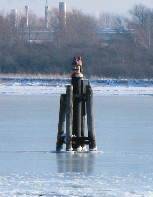 Swedish head at a dolphin near the harbour in Wismar, Mecklenburg-Vorpommern, Germany